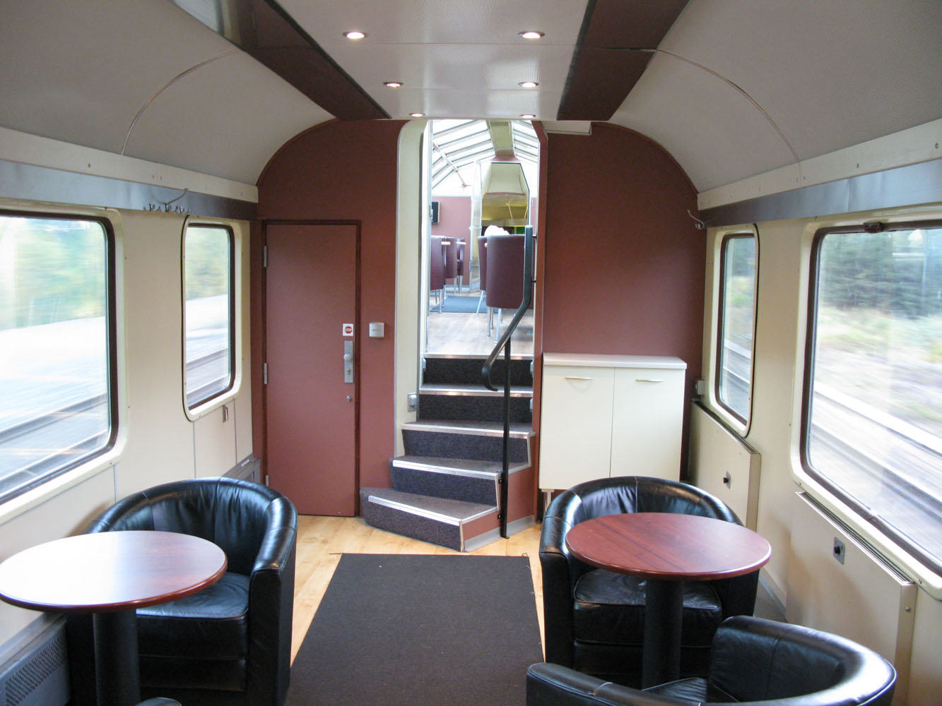 Netrail P1 dome car, extended restaurant area. Originally the compartment area of the DB ADümh 101.